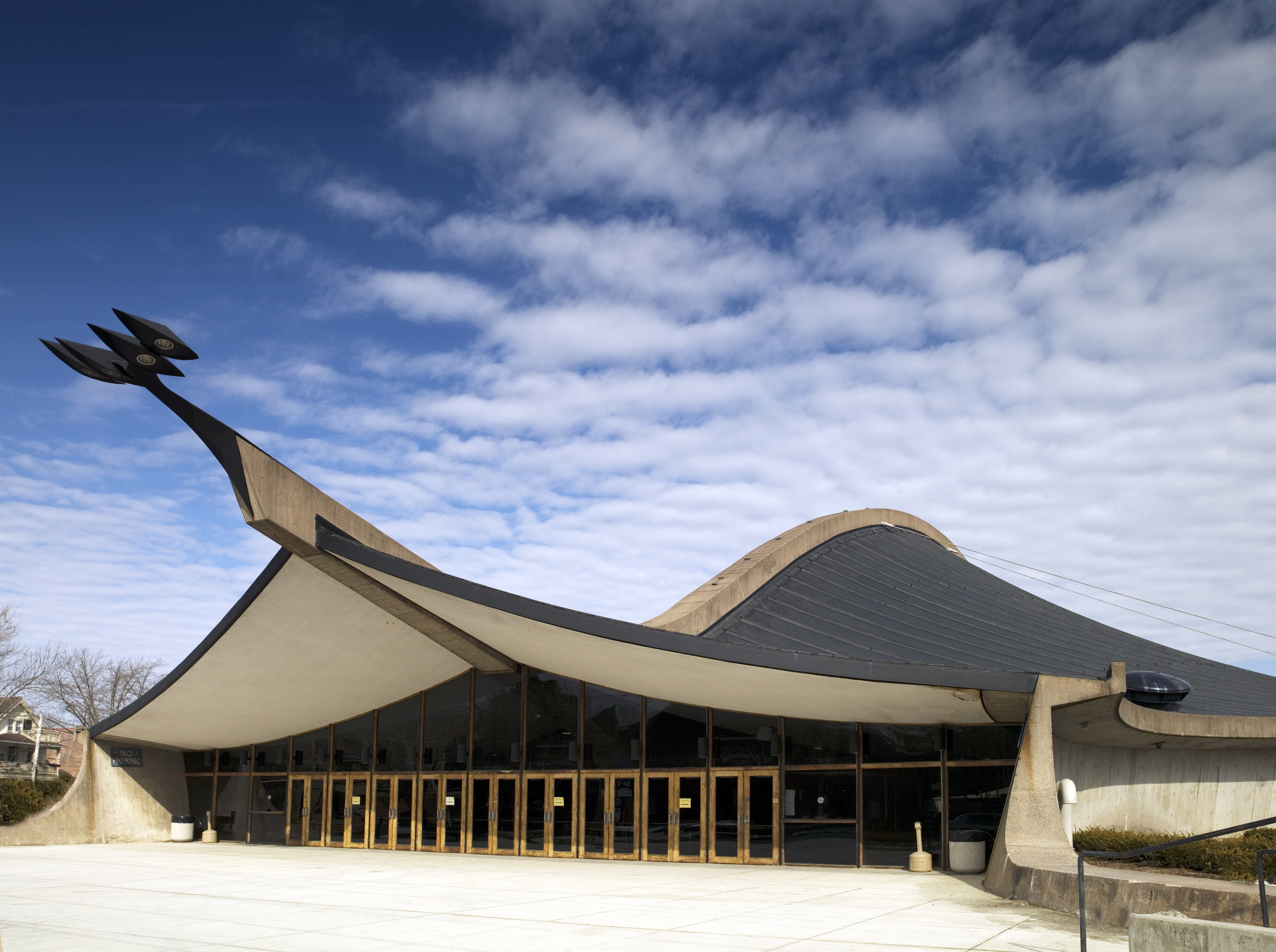 Front of Ingalls Rink from Sachem Street, New Haven, CT